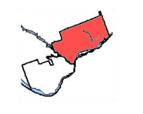 Gatineau in relation to districts in the Gatineau/Hull region